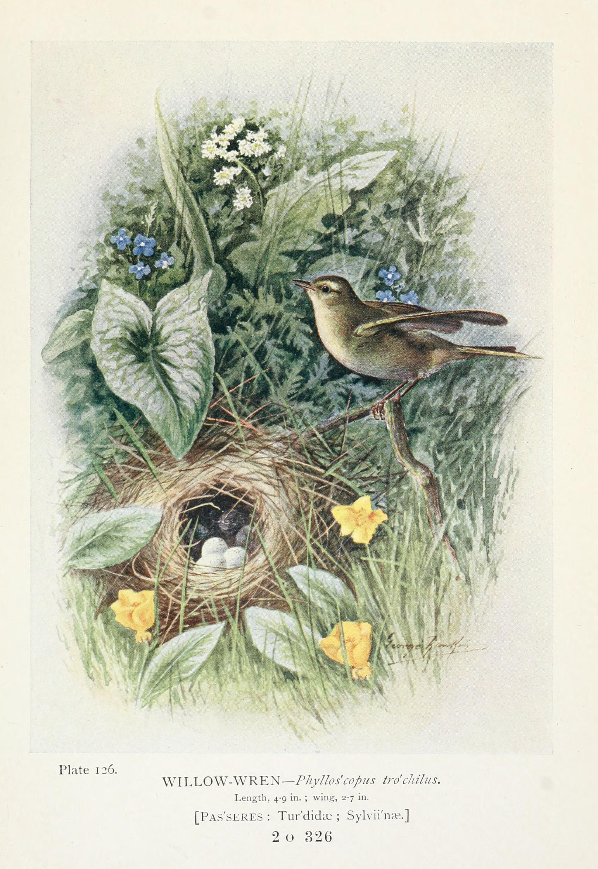 Title: Britain's birds and their nests Year: 1910 (1910s) Authors: Thomson, Arthur Landsborough, Sir, 1890- Thomson, J. Arthur (John Arthur), 1861-1933 Rankin, George Subjects: Birds -- Great Britain Birds -- Nests Publisher: London : W. & R. Chambers Text Appearing Before Image: its nest on theunder-side of a branch, but slightly different situationsare sometimes used. The typical situation and the almostspherical shape are well seen in the accompanying plate.The materials used are moss, wool, spiders webs, lichens,and others of a similar nature, while feathers are usedfor the lining. The five to eight or more eggs are laidearly in April, as a rule. They are huffish white, withsmall reddish-brown specks. THE WILLOW=WREN (Phylloscopus trochilus).Plate 126. Taken all in all, the Willow - Wren is perhaps thecommonest and most familiar of British Warblers. Itis common even in the north of Scotland, although notin the outlying isles, and there are few smtable parts ofour area in which it is not abundant in summer. It isfound even in the London parks. It arrives early inApril in the south, three or four weeks later in thenorth, and remains till mid-September. The Willow-Wren is the common representative of awell-marked group of small Warblers, the prevailing colour Text Appearing After Image: Plate 126. WILLOW-WREN—P/ij//osl-oJ)us trocMus. Length, 4-9 in. ; wing, 2-7 in. (PasSERES : TurdidcC ; Sylviinae.) 2 o 326